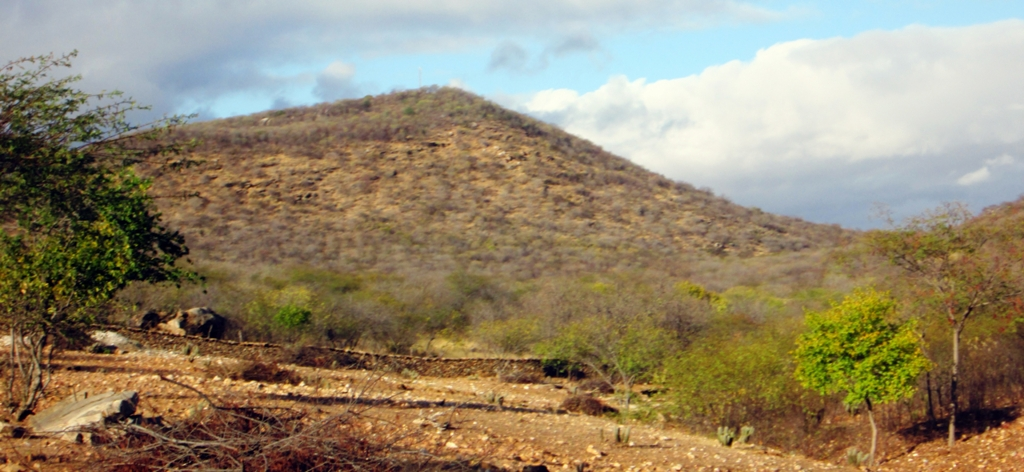 Monte Pascoal